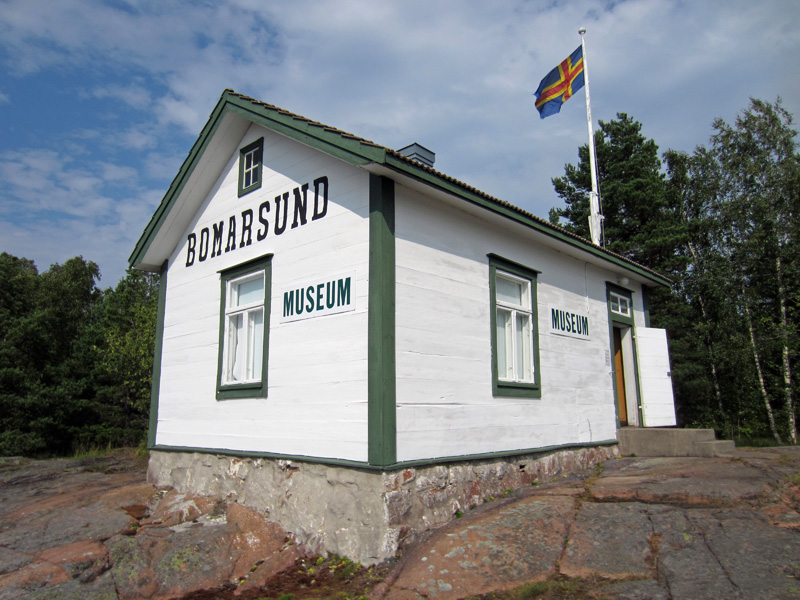 The museum of Bomarsund, Prästö, Åland, Finland